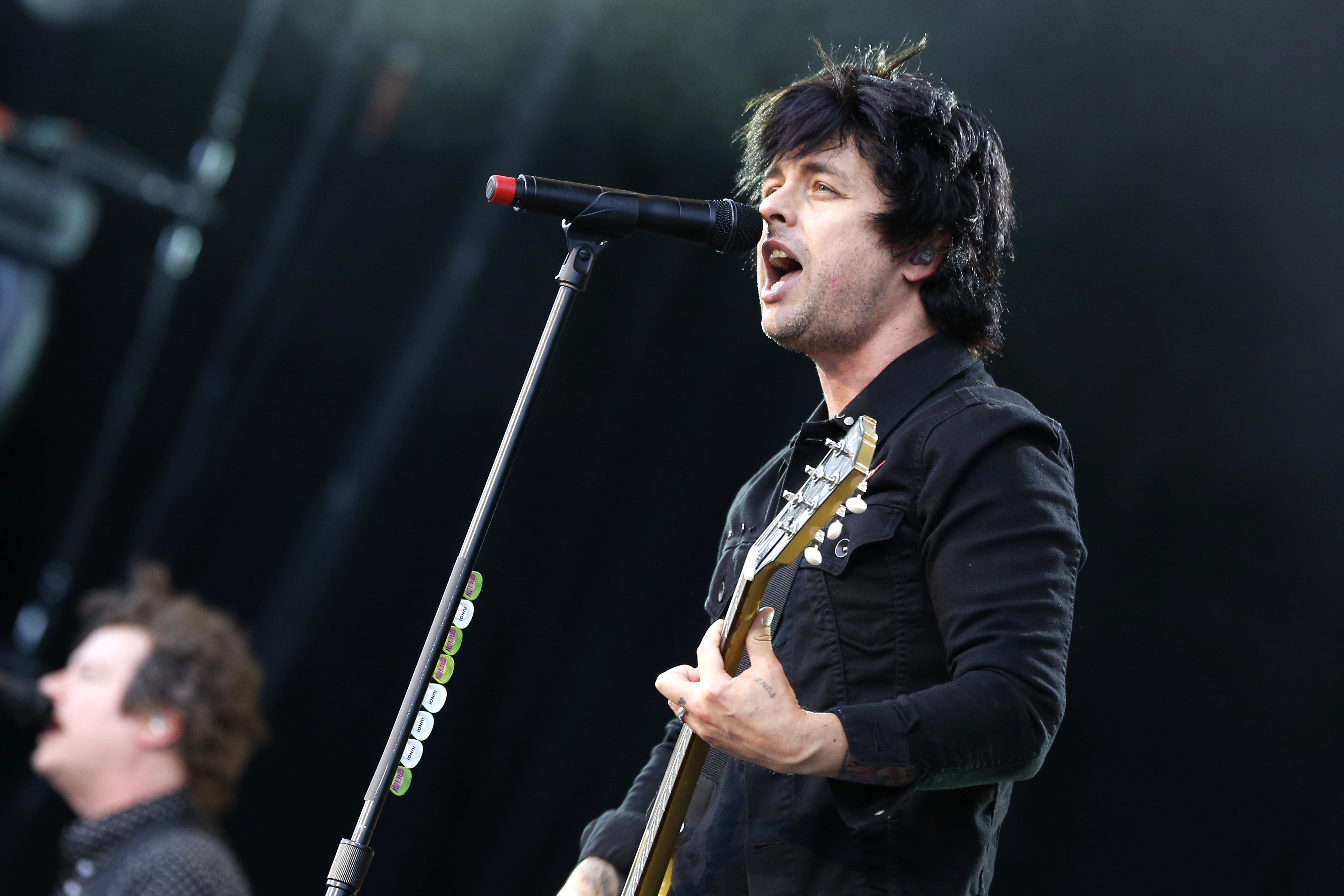 Billie Joe Armstrong, singer and guitarist of Green Day, stands on the Center Stage of Rock im Park-Festival 2013.